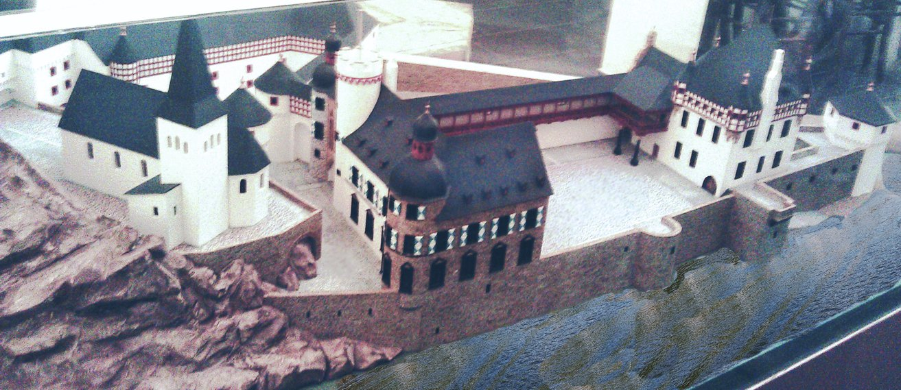 View Schloss Gondorf from 1730 (as a model). Nowadays a road runs through the Building.